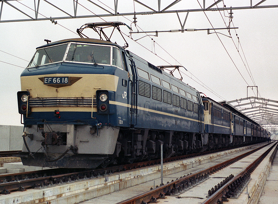 A special load test train formed of dead Class EF62, EF64, and EF65 electric locomotives hauled by Class EF66 electric locomotive EF66 18 near Utazu Station on the Yosan Line in Shikoku